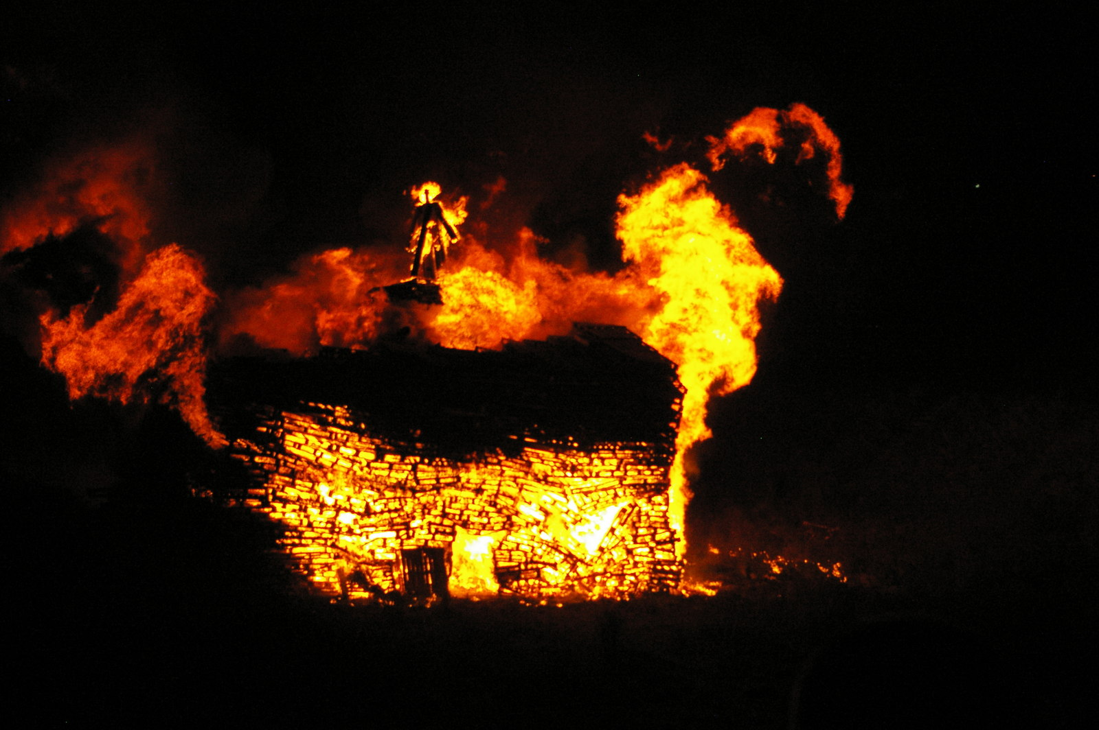 Guy Fawkes' bonfire, Carshalton Park